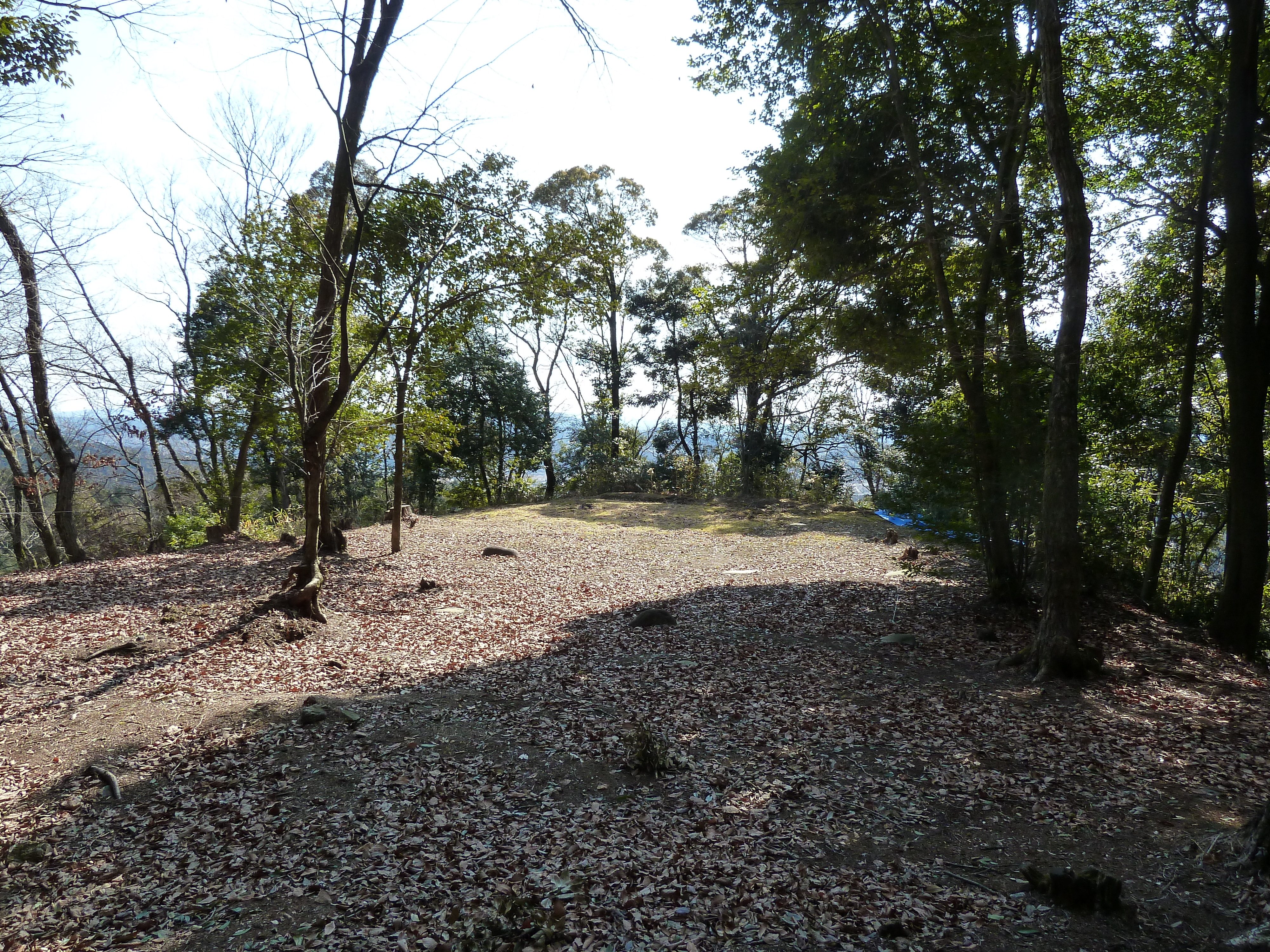 南腰曲輪